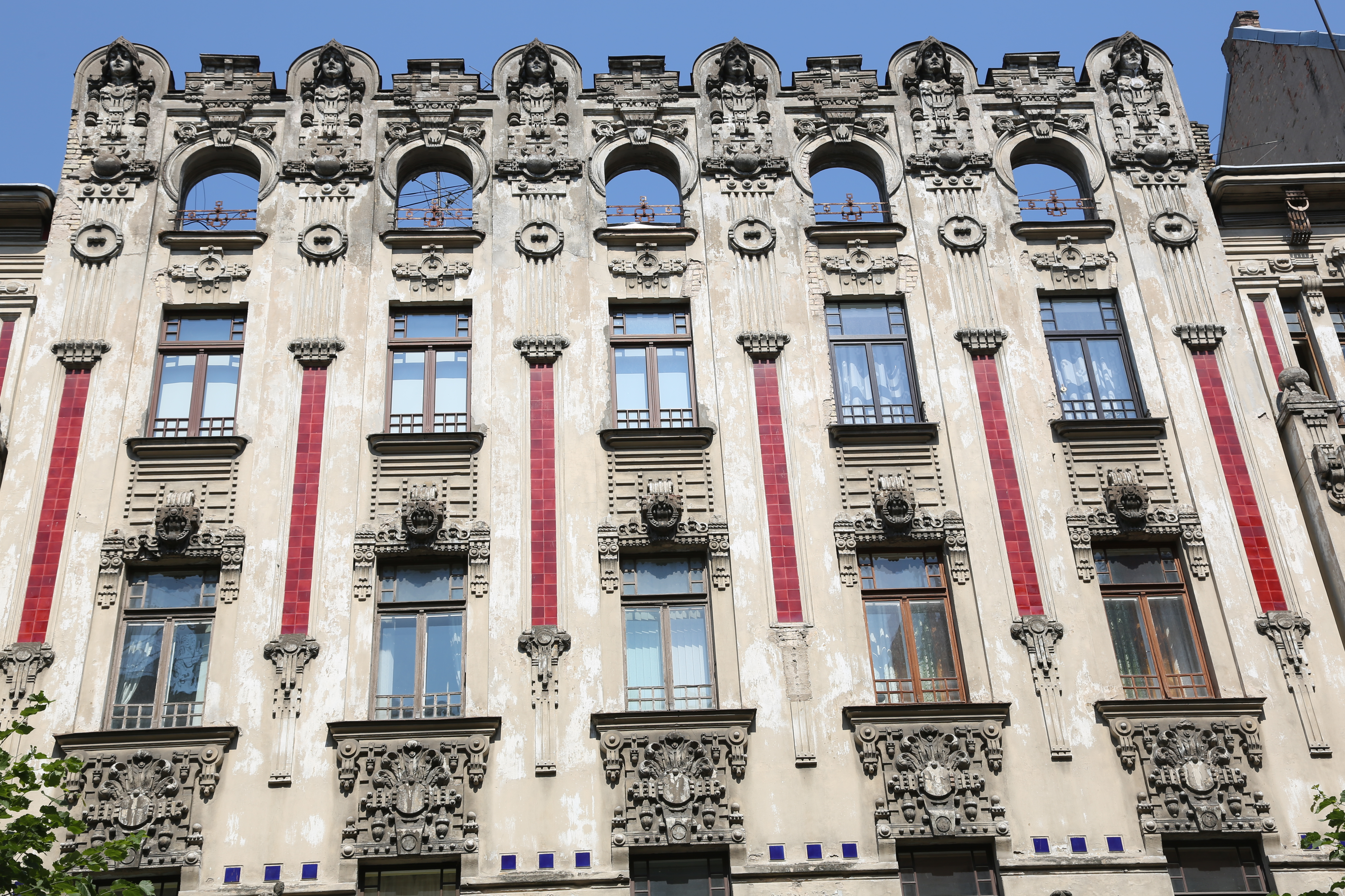 An Art Nouveau building in Rīga. Built in 1906. Architect Mihails Eizenšteins